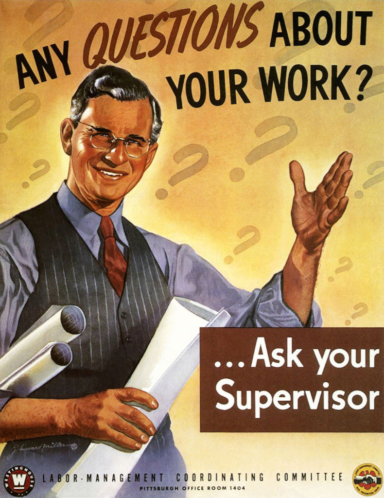 A US wartime propaganda poster by J. Howard Miller, produced for Westinghouse under a federal program. Miller is better known for the "We Can Do It!" poster from the same series.